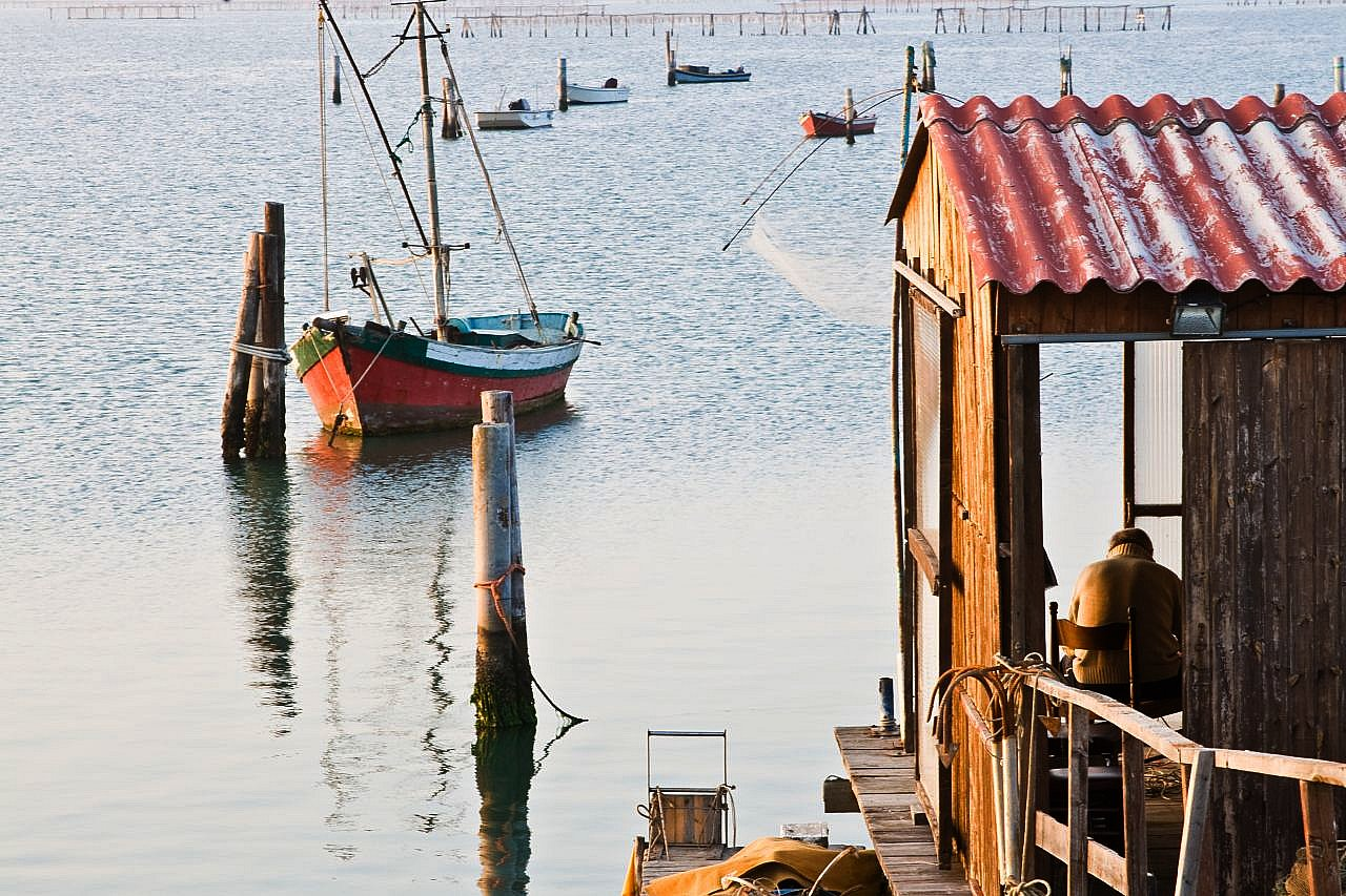 Scardovari's view (with the fisherman) - Porto Tolle – Italy.